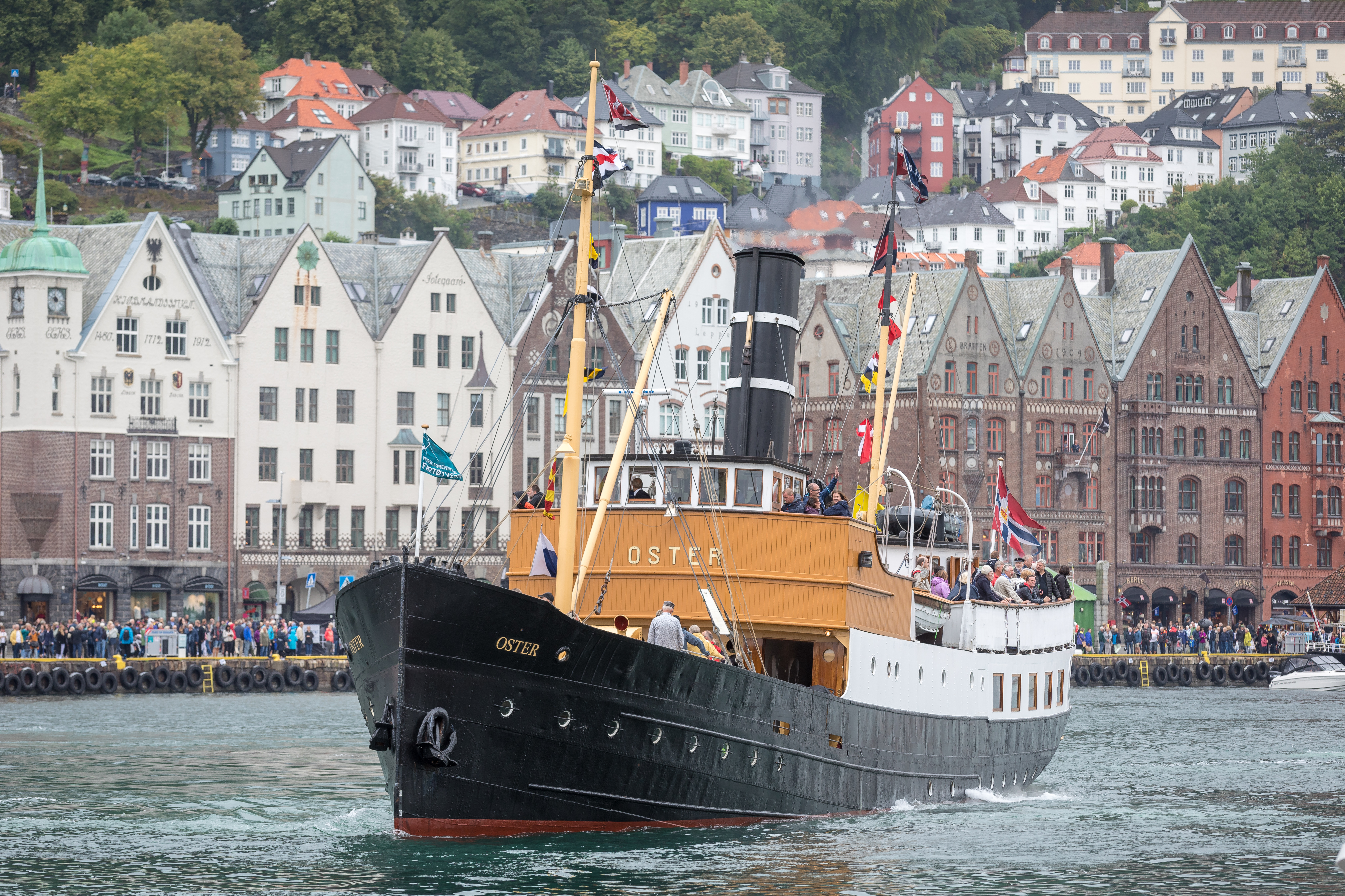 Steamship SS Oster heading out from Vågen in Bergen during the the third day of the event Fjordsteam 2018, a maritime heritage festival that took place between 2 and 5 August 5 2018 in Bergen, Norway.